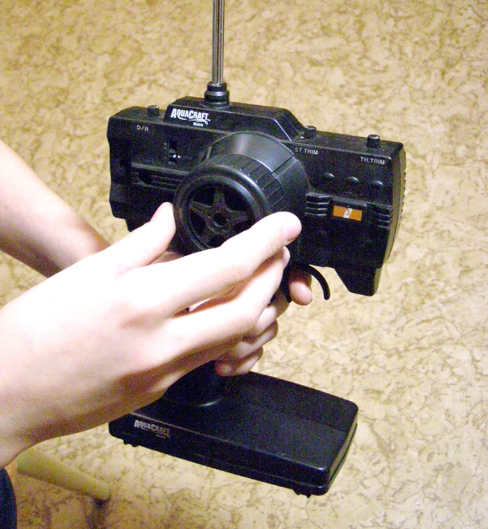 Transmiter vor RC car